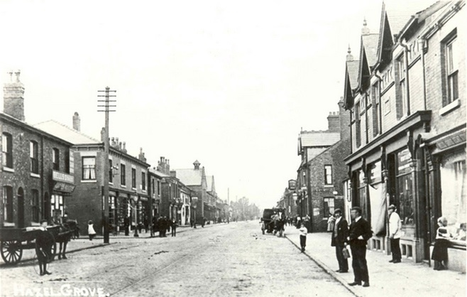 View looking north up London Road, Hazel Grove towards Stepping Hill. On the left is Cook Street (which now has Barclays Bank in the corner) opposite the Bird in Hand public house. Next to it there are the white cottages which were later demolished to leave the "band square".